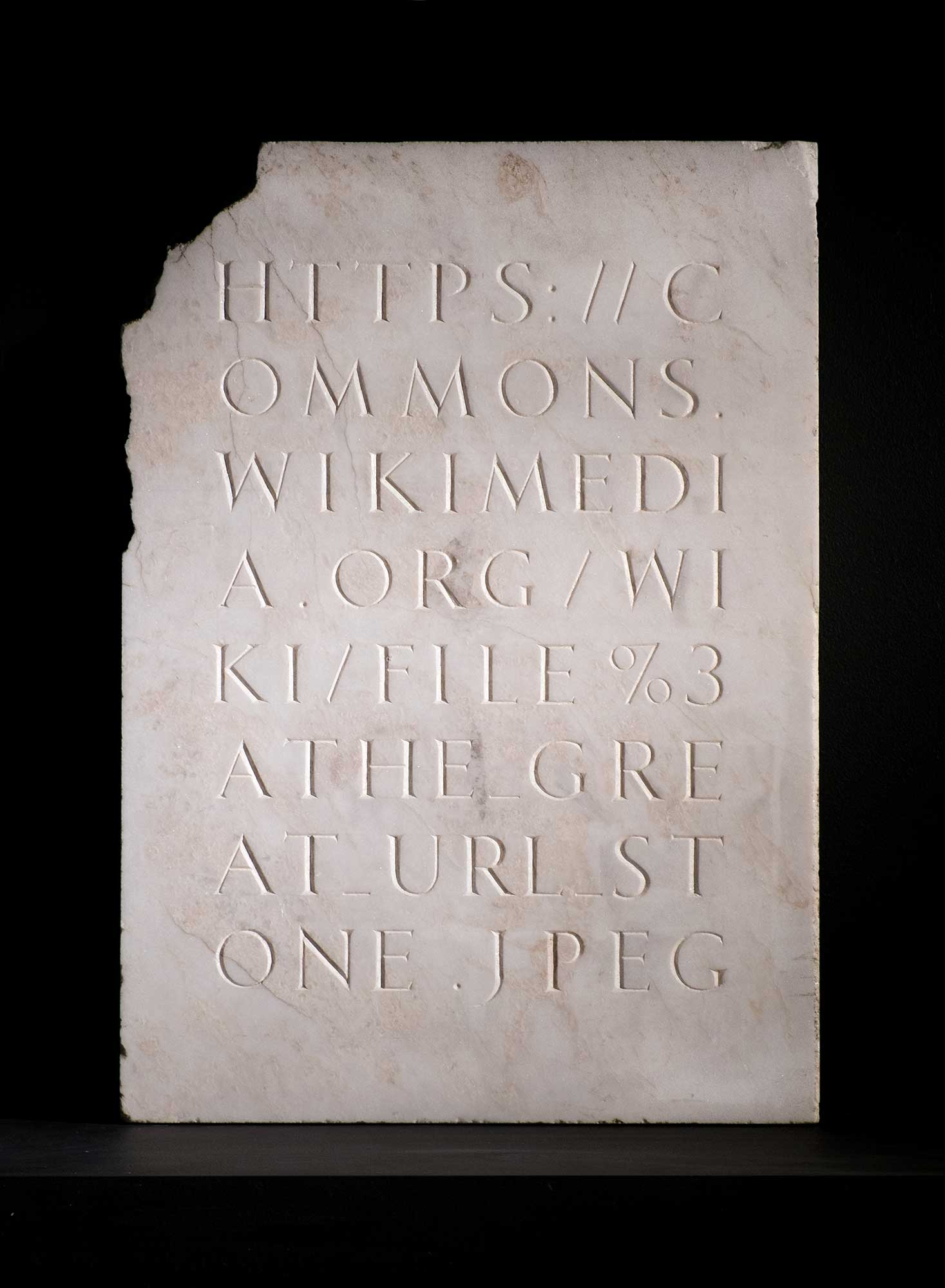 The URL Stone, is an artwork made by Egor Kraft. It is represented via a marble stone and it’s photo stored in the Wikipedia Media Storage. The work aims to study the various properties and longevity of media carriers that we assign the function of storing, transmitting and preserving knowledge, data and information in general. The investigation will juxtapose the same information being held/transmitted by two mediums, which have fundamentally different properties. The mediums include: firstly a text carved into stone in an archaic way, in accordance to how knowledge used to be preserved by ancient civilisations and secondly an encyclopaedic article posted on Wikipedia, perhaps now the most common and progressive method of documenting and gaining knowledge to date. The text carved onto a marble plaque includes a url address, that refers to an image of this particular marble plaque which is located within the Wikipedia media storage (Wikipedia Commons), followed by the Wikipedia article. The article contains detailed information about the purpose & creation of the marble plaque as well as its current location and condition, available for updating by the current holder of the plaque or any other Wiki user, in accordance with the democratic idea underlying the ideological principles of the site. The project is not complete until one of these two forms of media no longer refers to the other – the link is lost or ceases to exist, thus losing its durable qualities in site of the other. Which one will be lost first? Only time will tell...